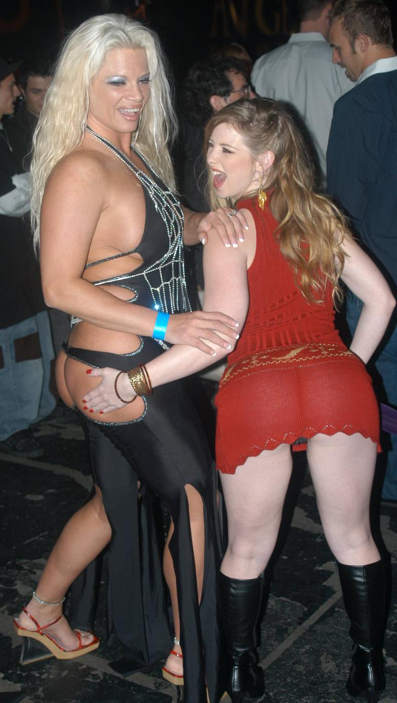 Summer Haze, Sunny Lane at West Coast Productions Party.